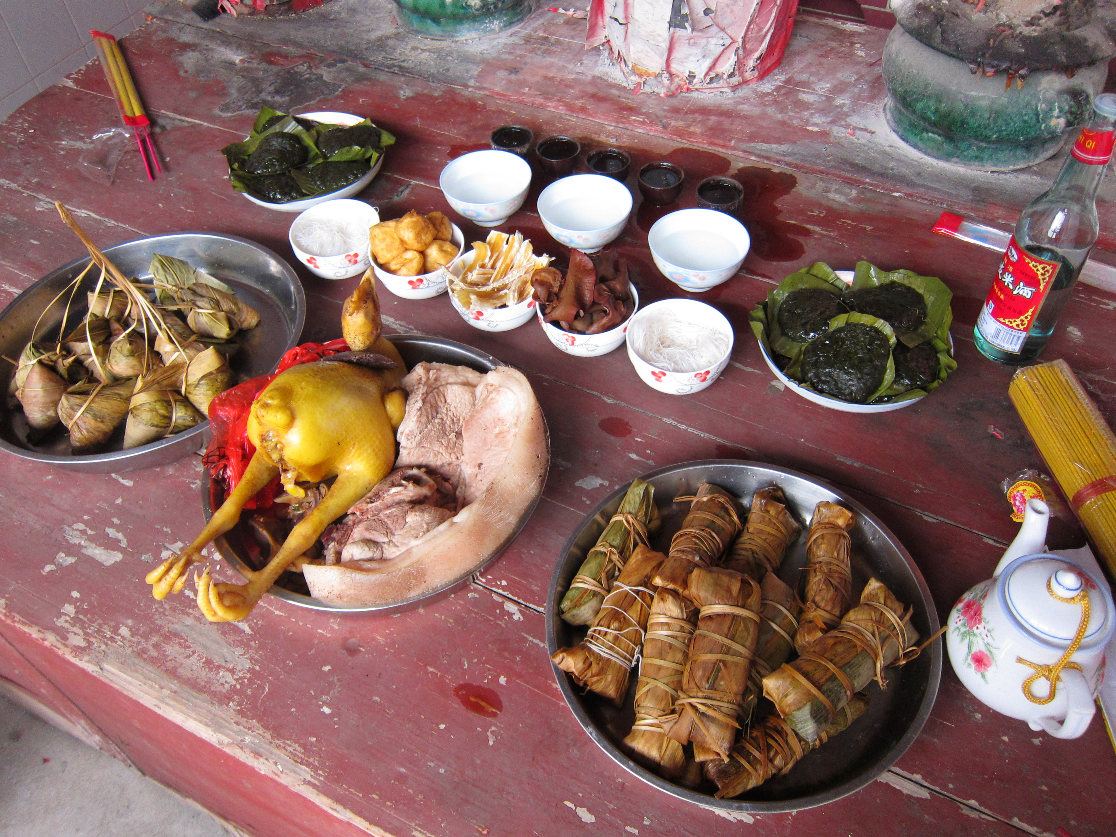 The wrapped things are jung, glutinous rice dumplings with various fillings. The green flat things in the background are a sticky, gooey sweet made from mugwort - delicious!